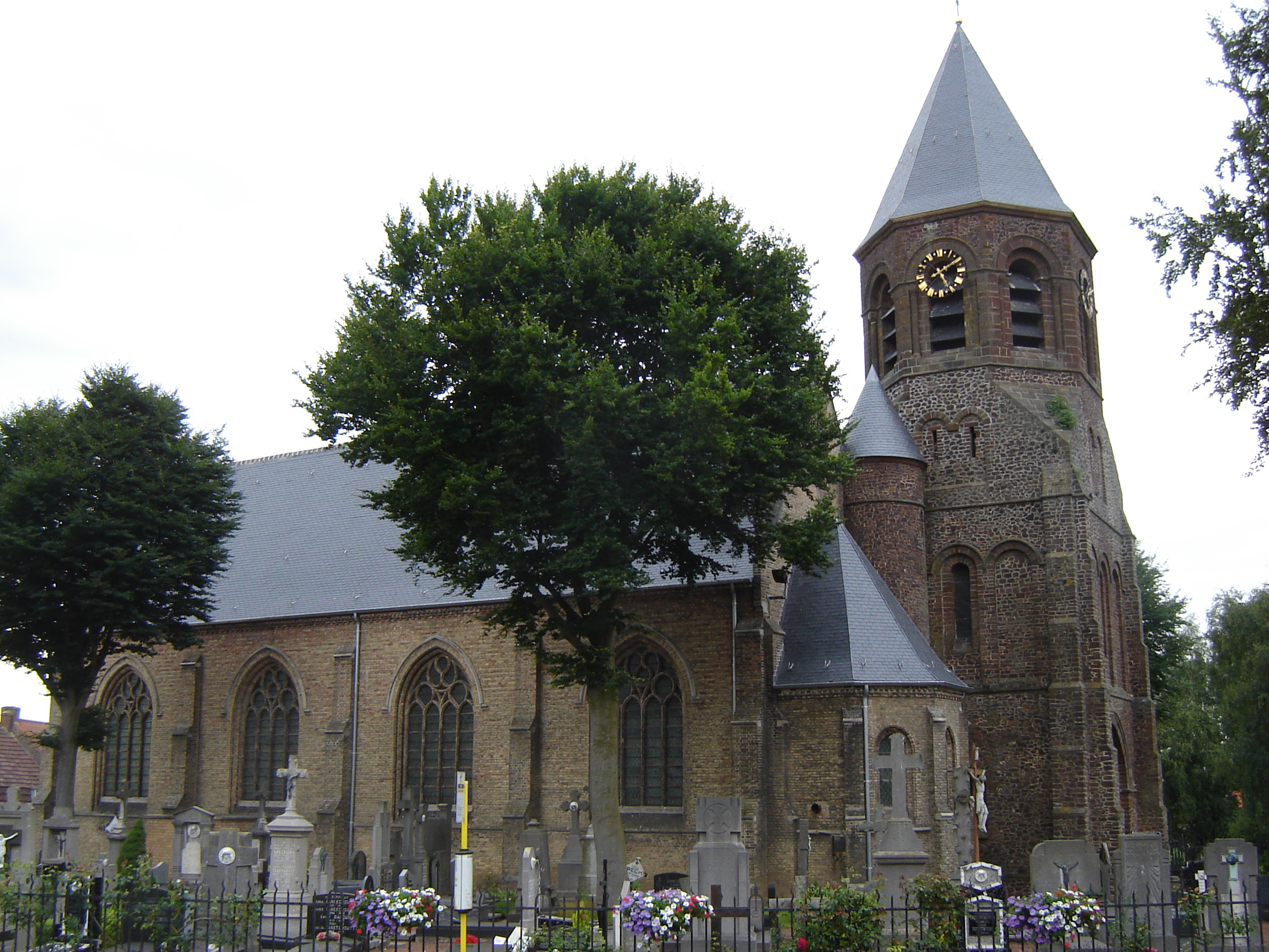 Church of Saint Eligius in Westouter, Heuvelland, West Flanders, Belgium.